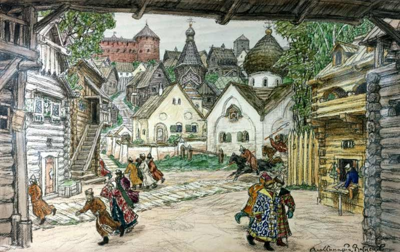 The street in the town: the set to “Oprichnik” by Pyotr Tchaikovsky 1911, paper, water-colour, charcoal, 52 x 83,2 cm State Theatrical Bakhrushin Museum, Moscow